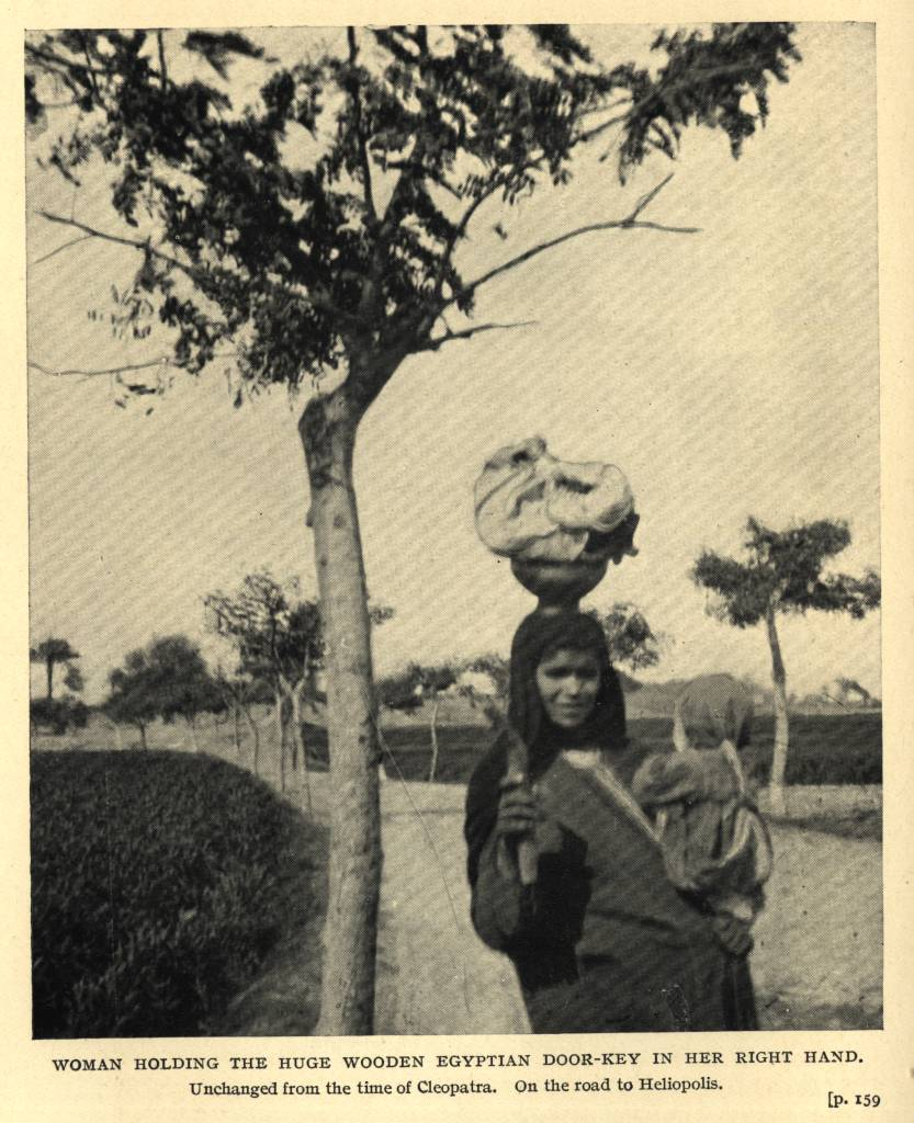 A woman is walking on a road lined by trees. She is carrying a child and a large wooden key .